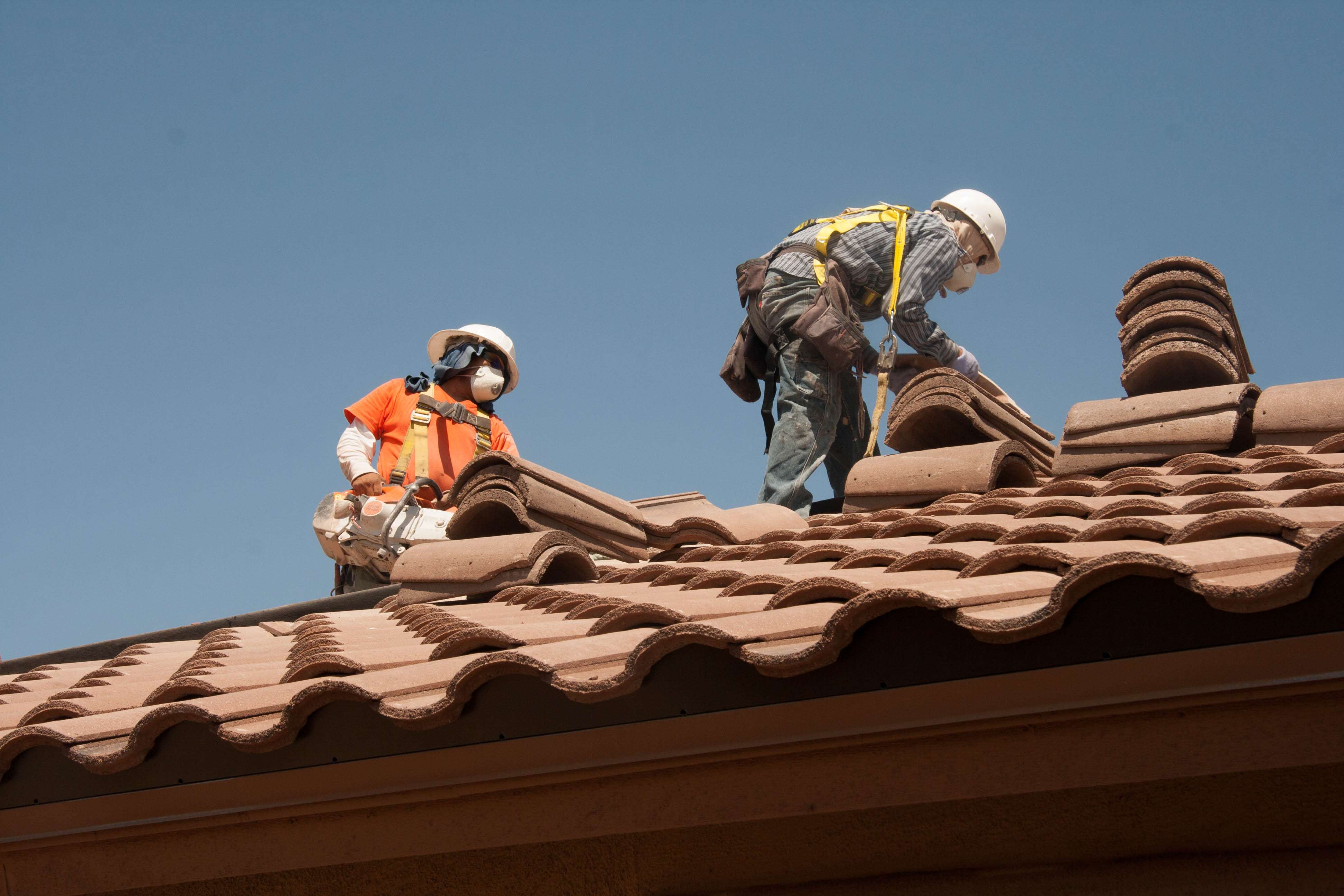 Roofers using fall prevention equipment